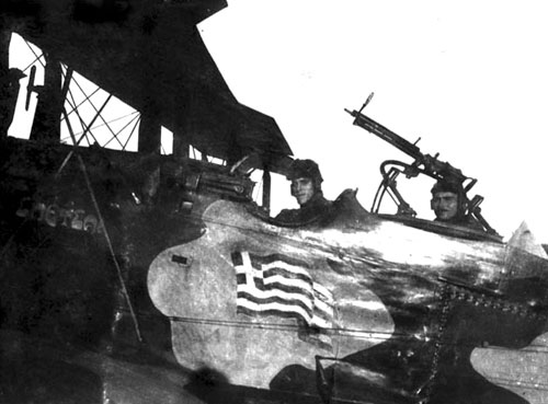 Greek aircraft during the Greco-Turkish War, 1919